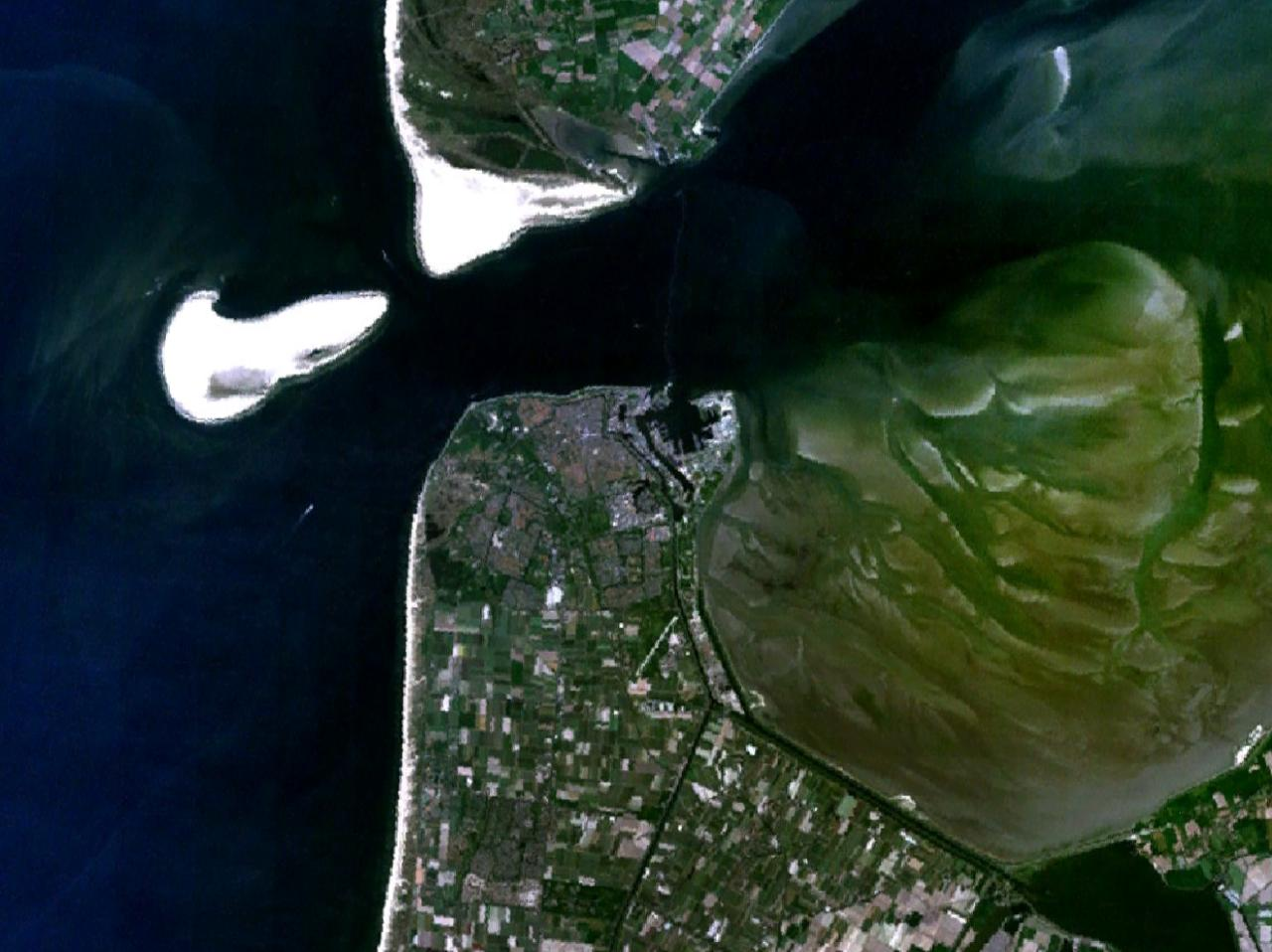 Satellite image of Den Helder, the southern tip of Texel island, Noorderhaaks sand bank (on the left of the image) and the Marsdiep